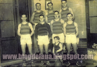 The champion squad of union atletica in 1925. In the Picture back: H. Castiglioni - F. Latorre - R. González Forward: G. Jasidakis - F. Larghi - L. Gómez Harley - T. Forné